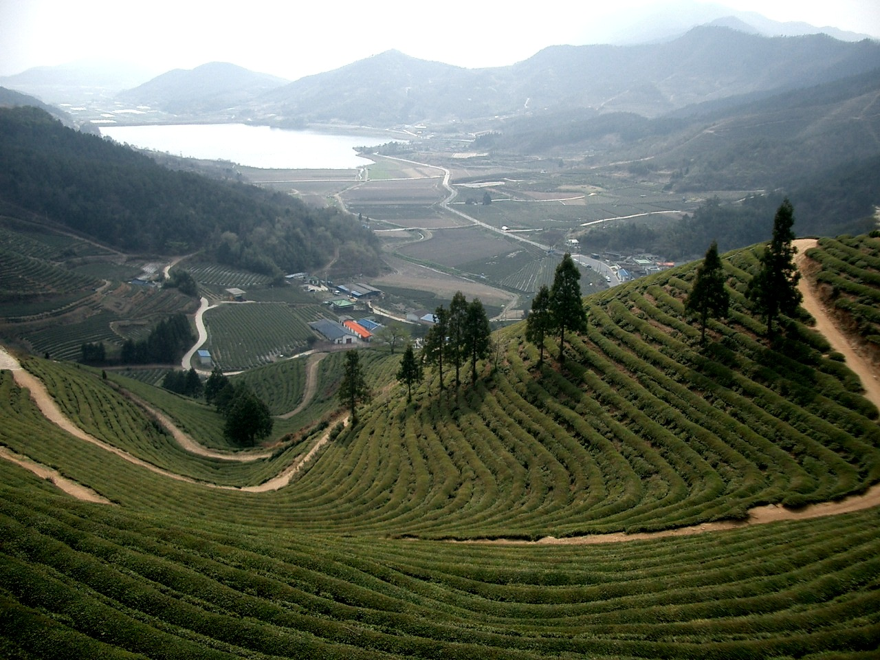 Green tea farm of Boseong, Jeollanam-do South Korea